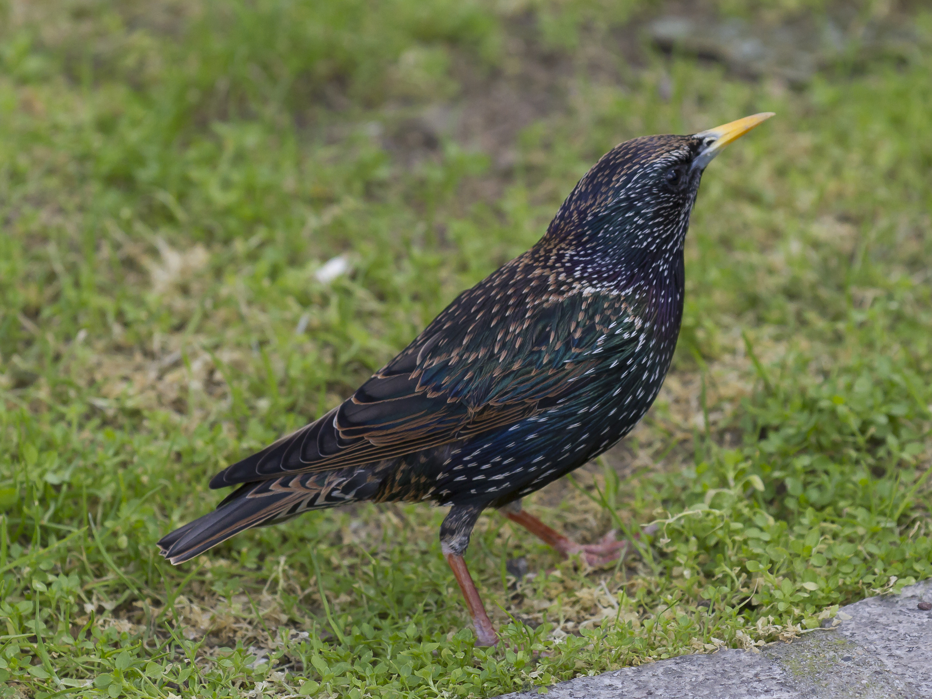 Common starling (Sturnus vulgaris) in Toulouse